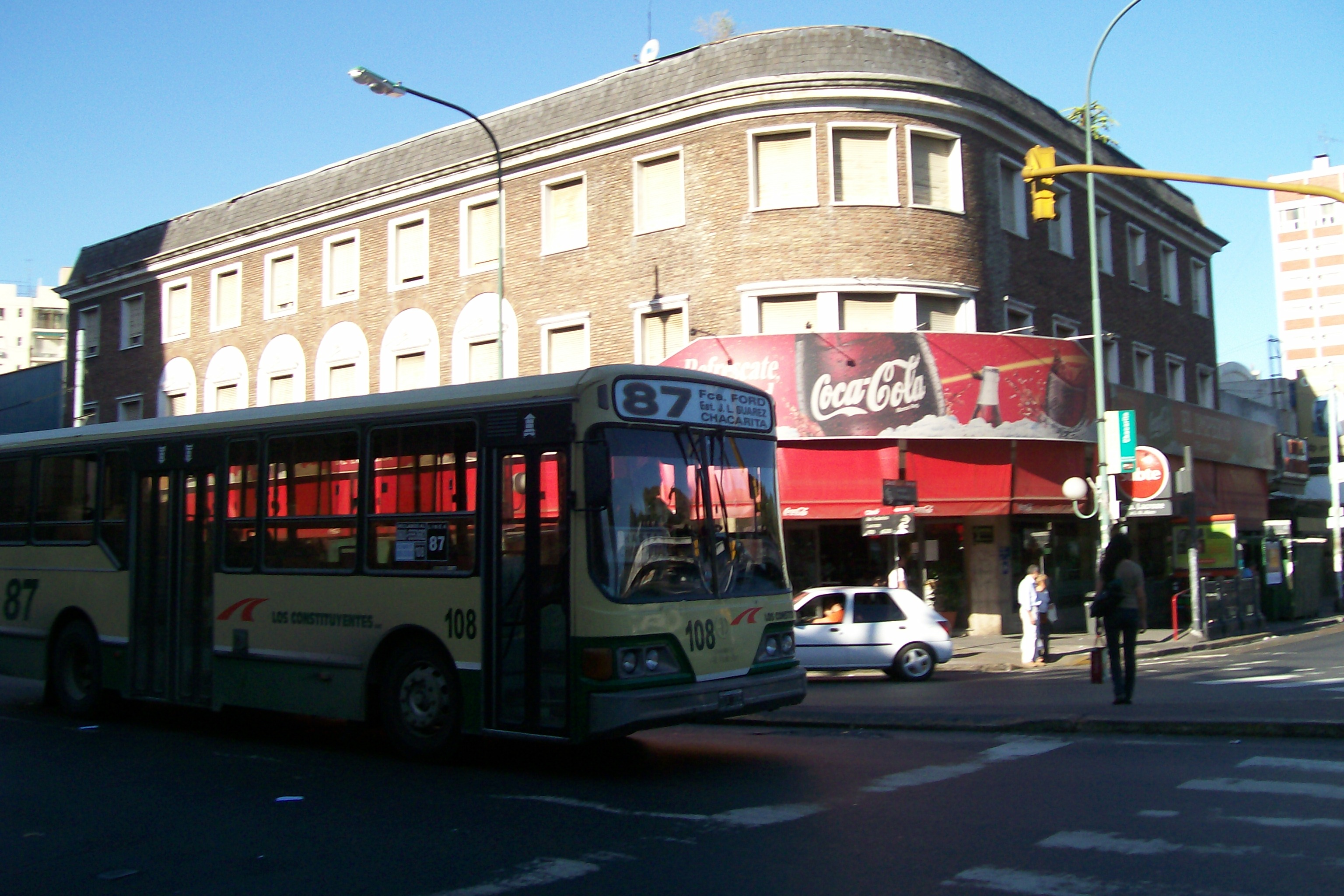 El Detalle bus (#108) in Buenos Aires, Argentina. Colectivo, line 87, Los Constituyentes S.A.T. operator.